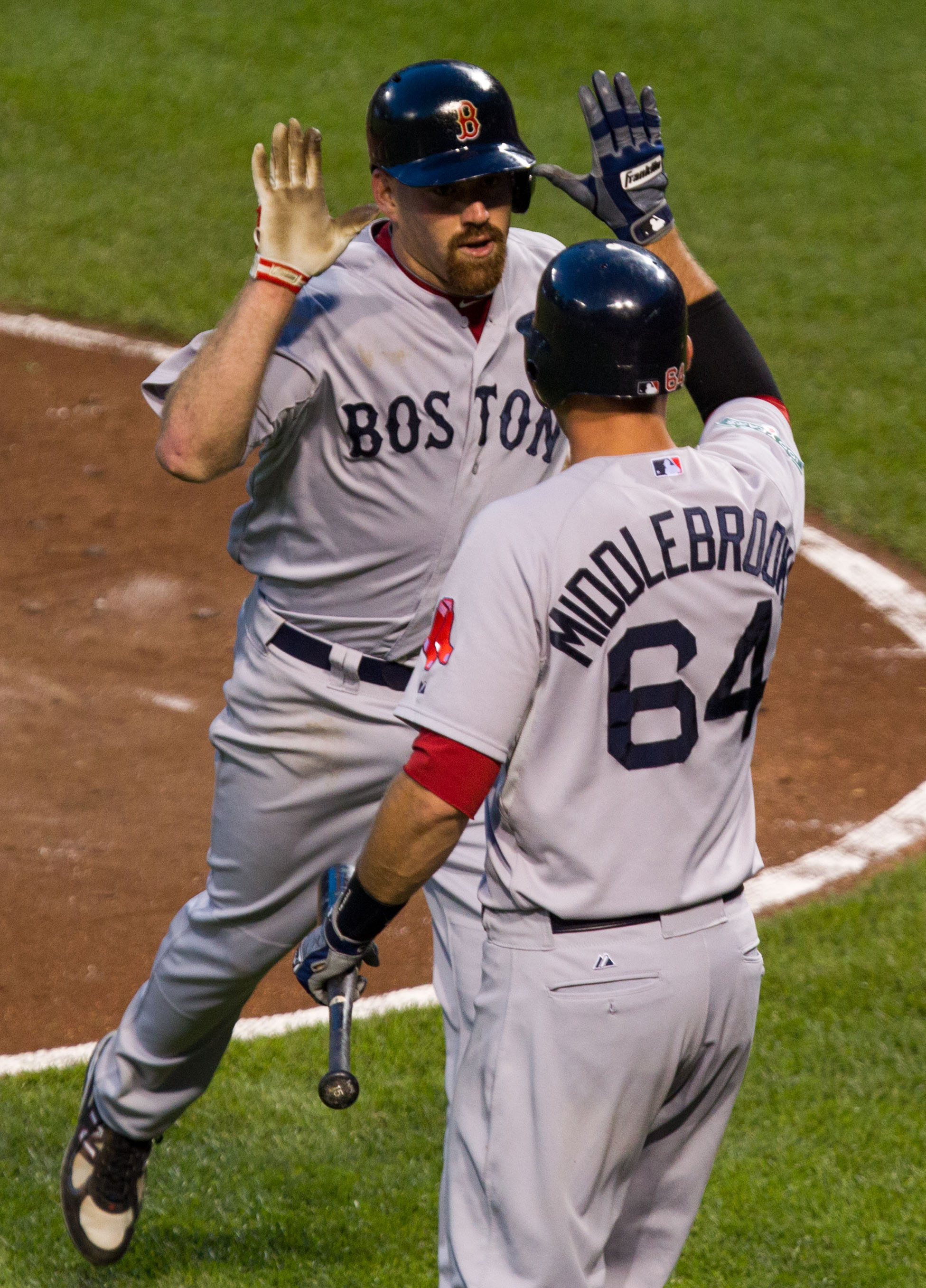 Kevin Youkilis #20 of the Boston Red Sox celebrates with teammate Will Middlebrooks #64 after hitting a solo home run during the fourth inning against the Baltimore Orioles at Oriole Park at Camden Yards on May 22, 2012 in Baltimore, Maryland.